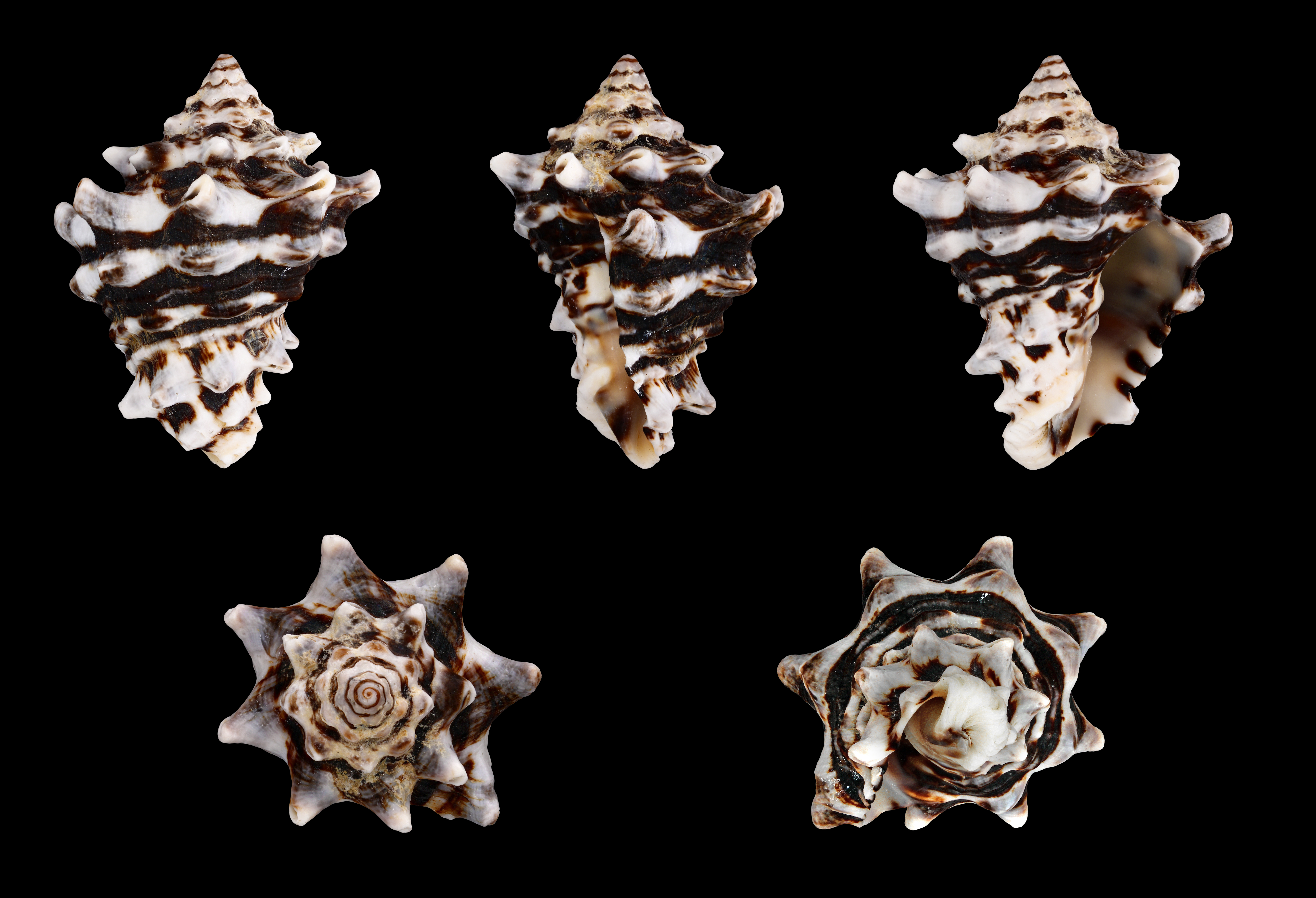 Common Pacific Vase; Length 4.8 cm; Originating from the Indo-Pacific; Shell of own collection, therefore not geocoded. Dorsal, lateral (right side), ventral, back, and front view.